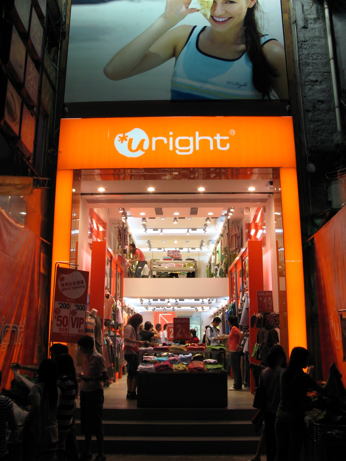 HK Cheung Chou U-Right Store U-Right 於長洲新興海傍街分店